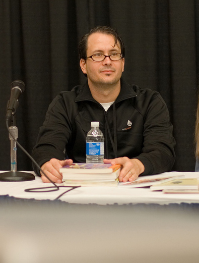 Brett Warnock, cropped from an image of Dylan Williams, Brett Warnock and Diana Schutz during the How to Put Together a Comics Anthology panel at the Stumptown Comics Fest 2006.